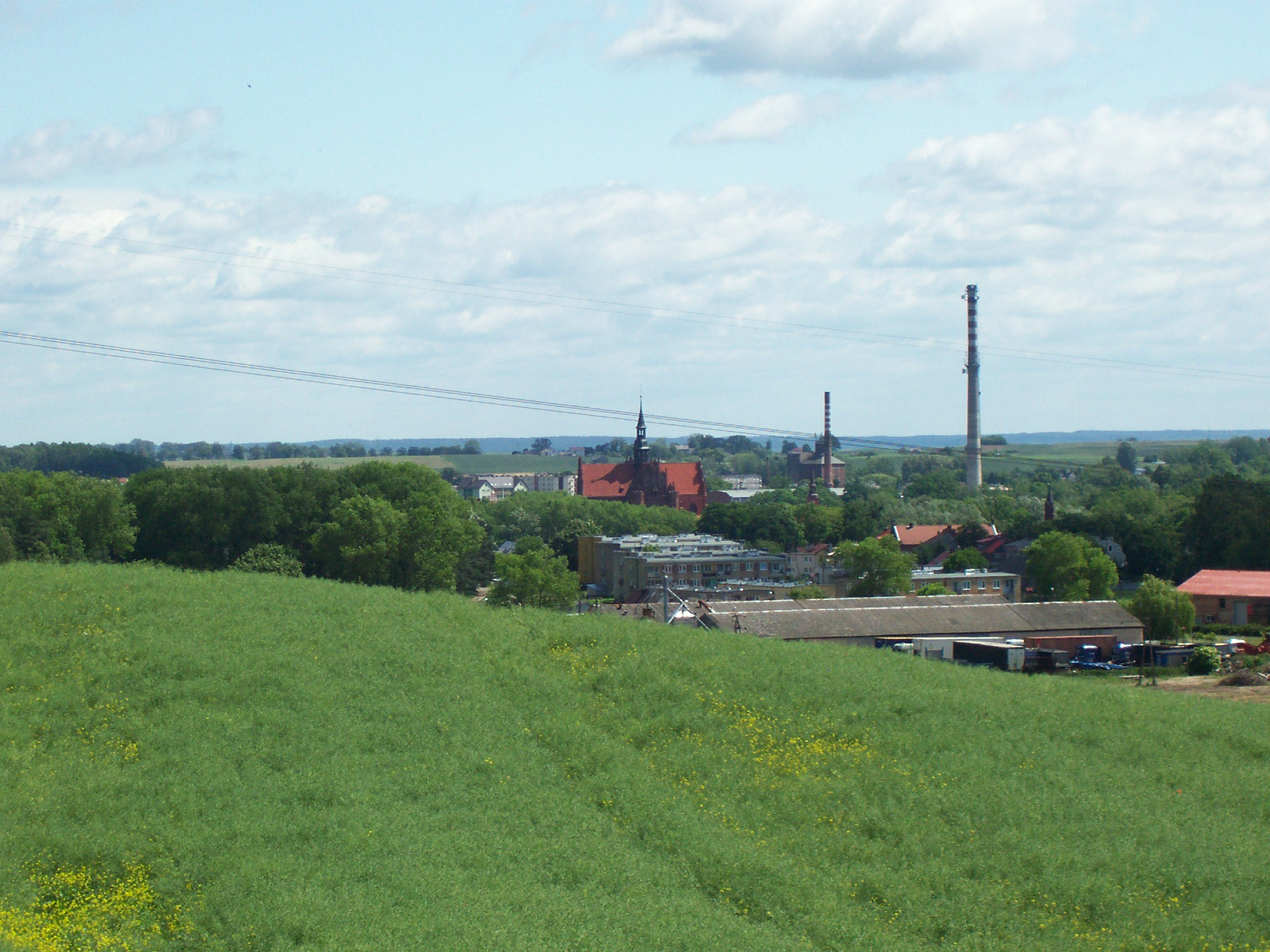 Panorama of Pelplin, Poland, from the Hill of John Paul II